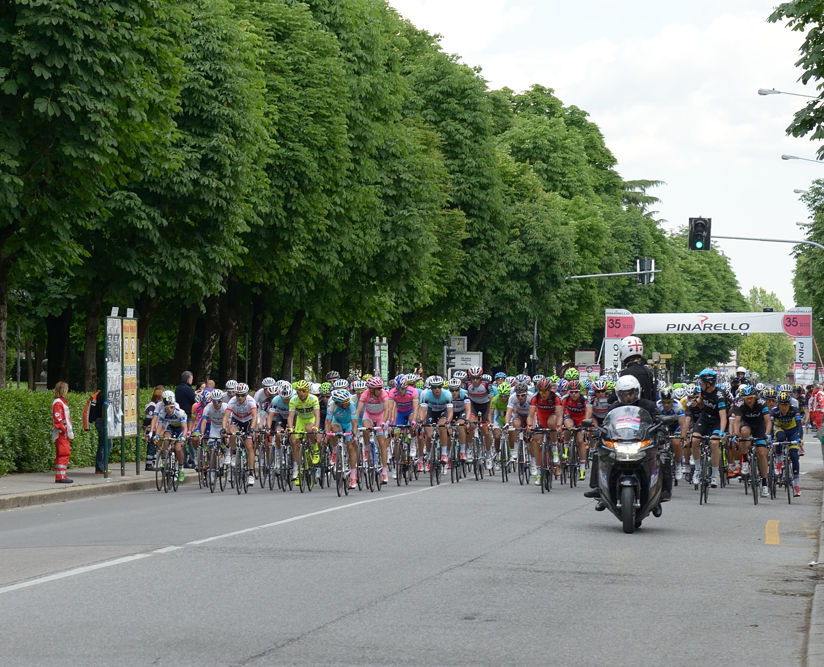 "Giro d'Italia" 2013 arrives in Brescia